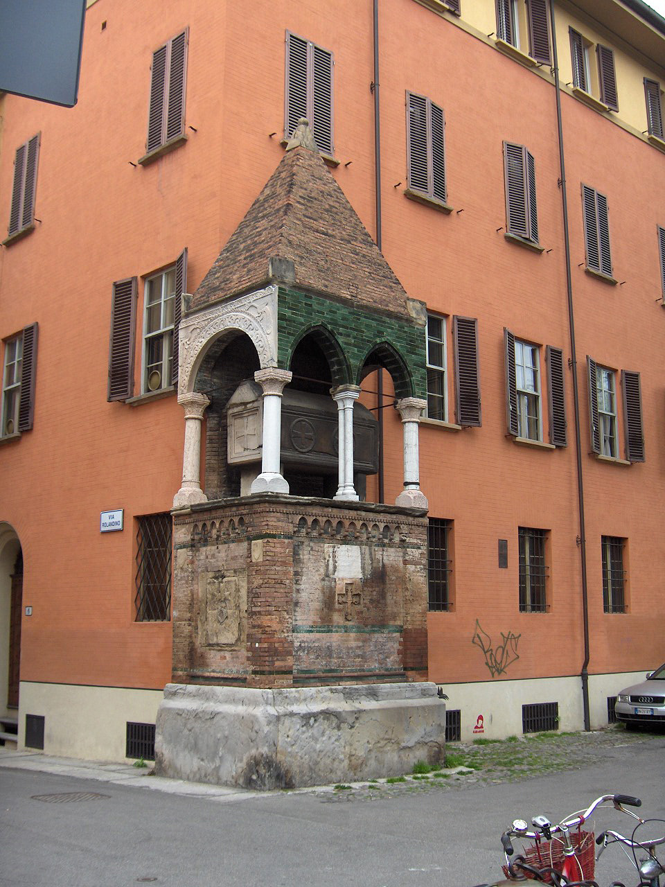 Tomb of jurist Egidio Foscherari (1289); Basilica of Saint Dominic, Bologna, Italy.